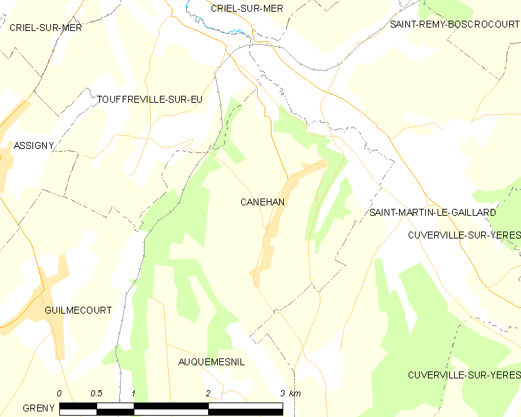 Map of French municipality Canehan